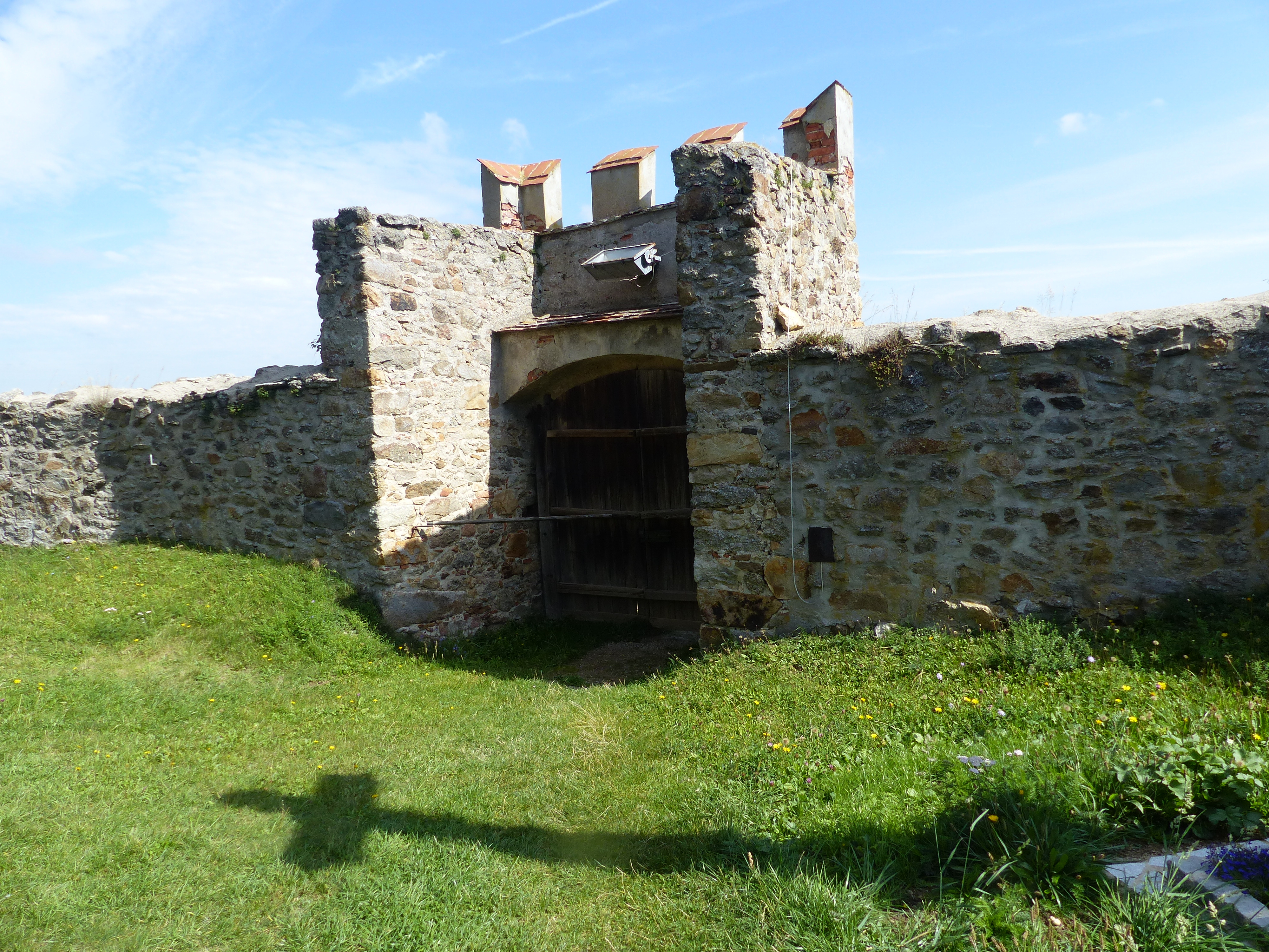 Kleinzwettl ( Gastern / Lower Austria ). Saint James the Greater church - Fortified church: Tower gate ( 17th century )